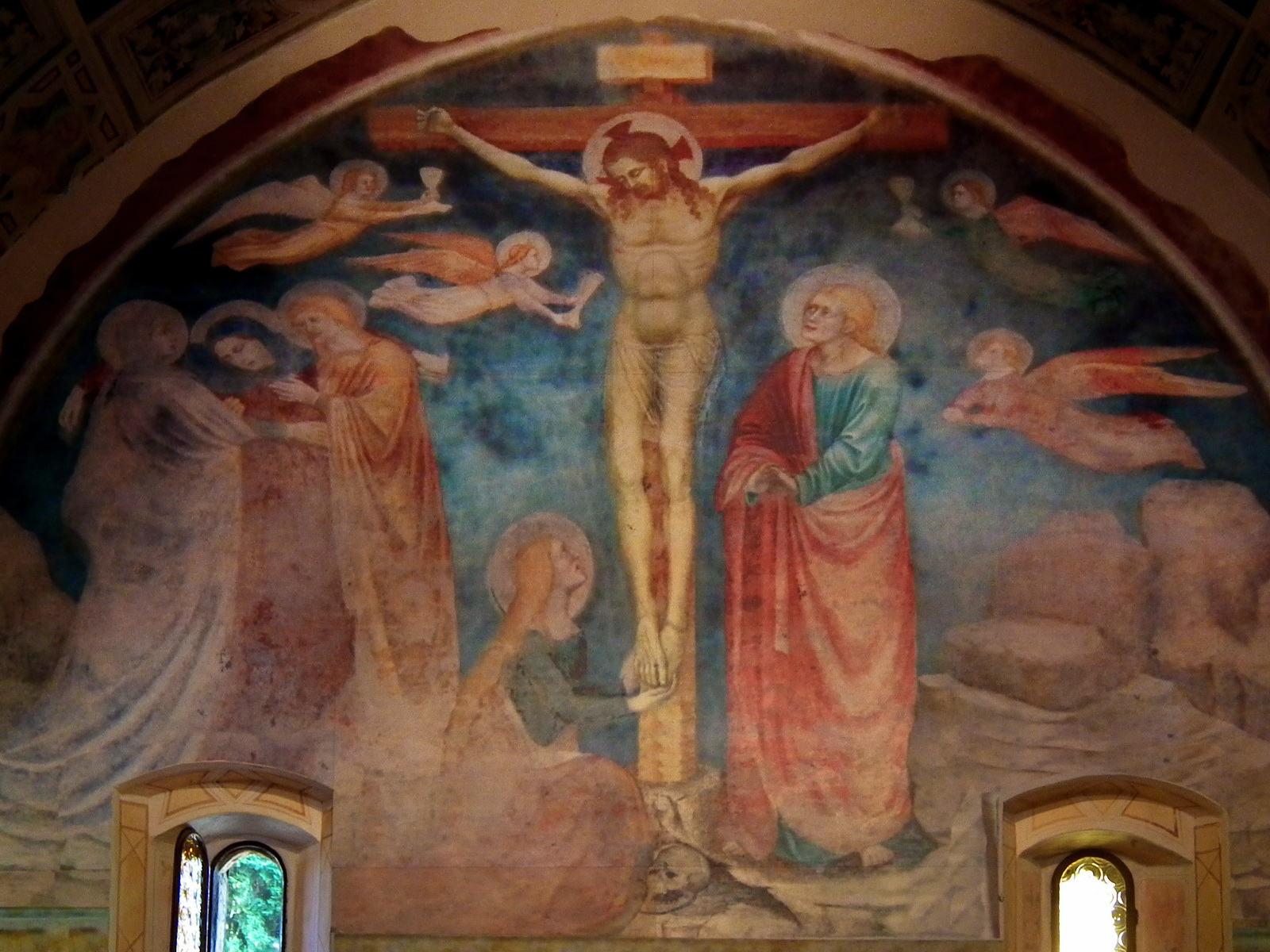 The reproduction of the frescoes now housed in Brera museum in Milan. Oratorio di Mocchirolo Native nameOratorio di MocchiroloLocationLentate sul Seveso, Lombardy, ItalyCoordinates45° 40′ 40.24″ N, 9° 07′ 55.67″ E